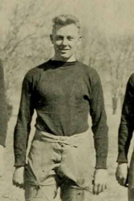 Andy Fletcher at UMaryland